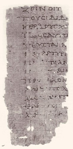 Papyrus 32 (recto)